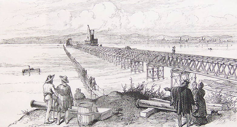 The Illustrated London News (ILN) 'The Bio-Bio Bridge, Chile'. Published London 24 August 1889. The river in the Nireco Canyon of Chile is world famous for whitewater rafting.